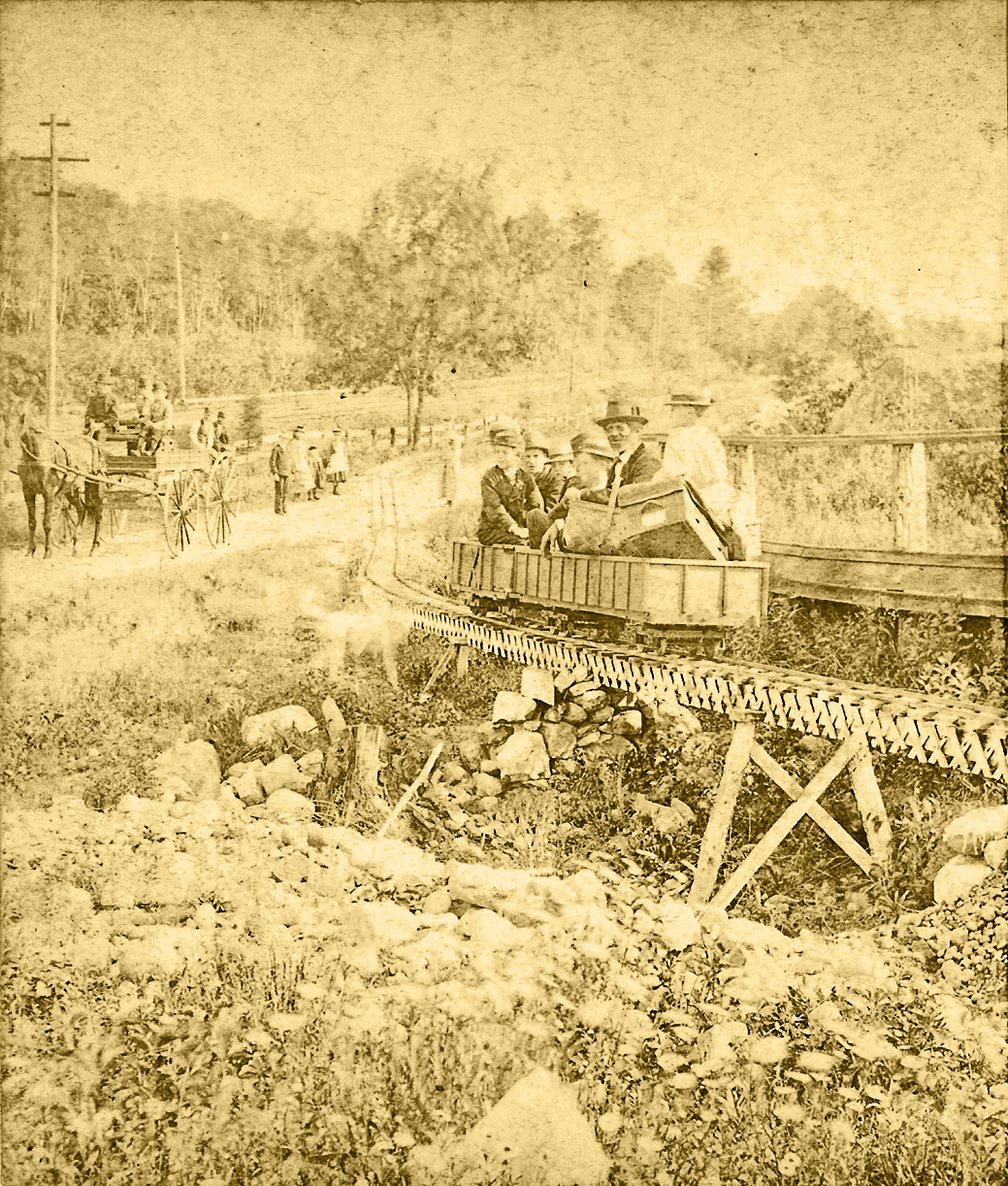 Takes the narrow gauge.